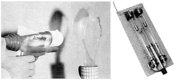 A homemade laser pistol that shoots a laser beam, constructed by Stanford University physics professor K. H. Sherwin in 1964, four years after the laser was invented, to demonstrate to his classes how lasers work. The body (left), recycled from a toy raygun, holds a pencil size ruby rod and two flashtubes.(right). It is attached by wire to a 200 watt-second high voltage power supply. When the trigger is pulled, the flashtubes go off, creating a pulse of red laser light from the rod. The coherent light pulse is powerful enough to pop a blue balloon (shown at left); but not a red one, since it reflects the red light. Alterations to image: cleaned up some dark areas around the circuit board on the left that looked to be artifacts from the page scan.